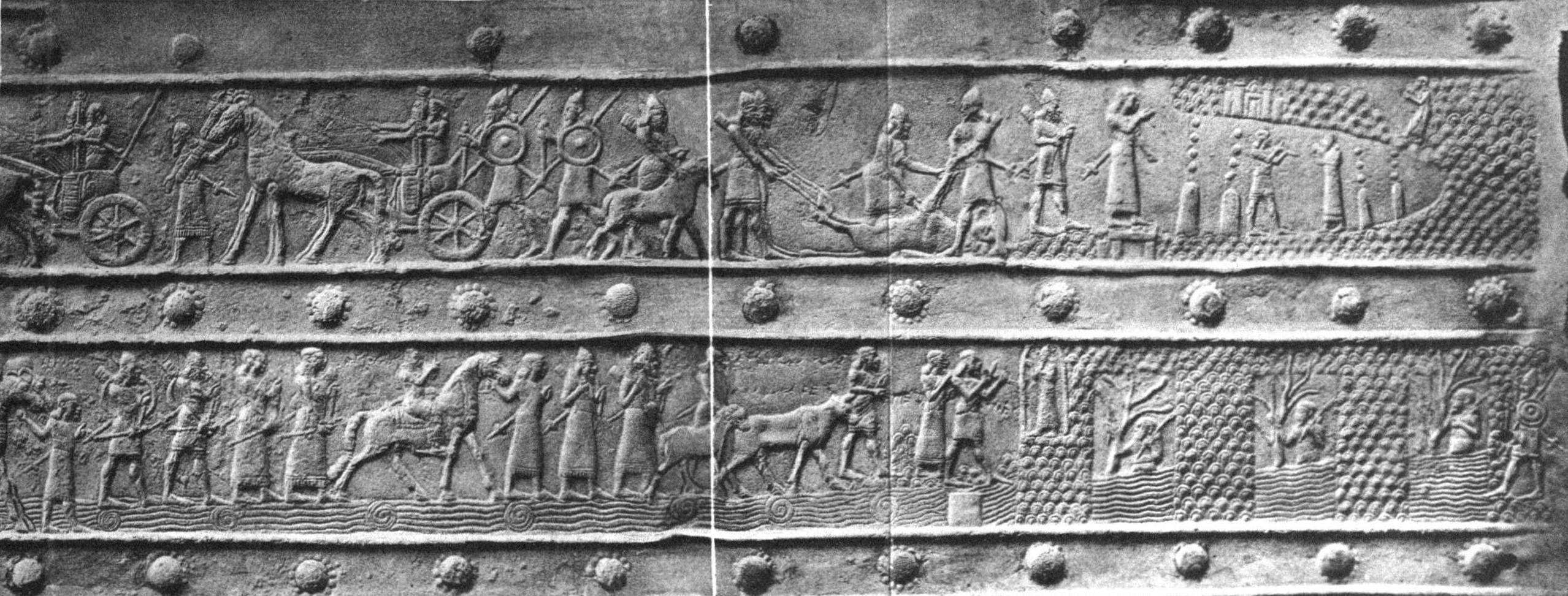 Part of the bronze gates of Shalmaneser III from his palace at Balawat.